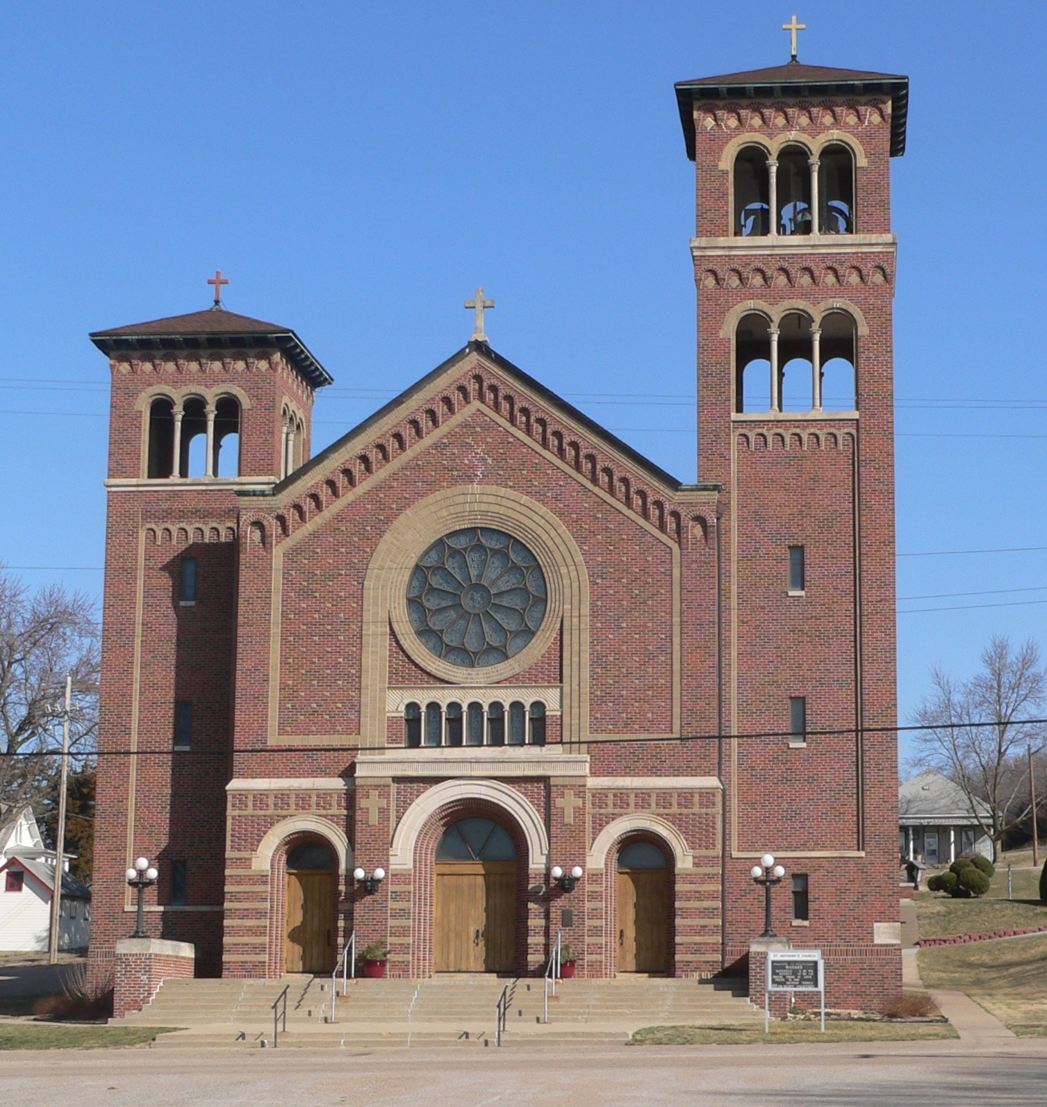 St. Anthony's Church in Steinauer, Nebraska; seen from the south.